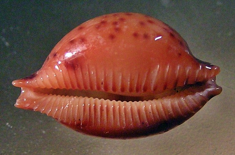 Pustularia globulus globulus Linnaeus, 1758; a cowry from the family Cypraeidae; Malaysia